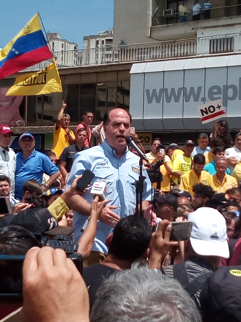 Julio Borges during the Venezuelan National Assembly special session in Brión Square, Caracas, on 1 April 2017